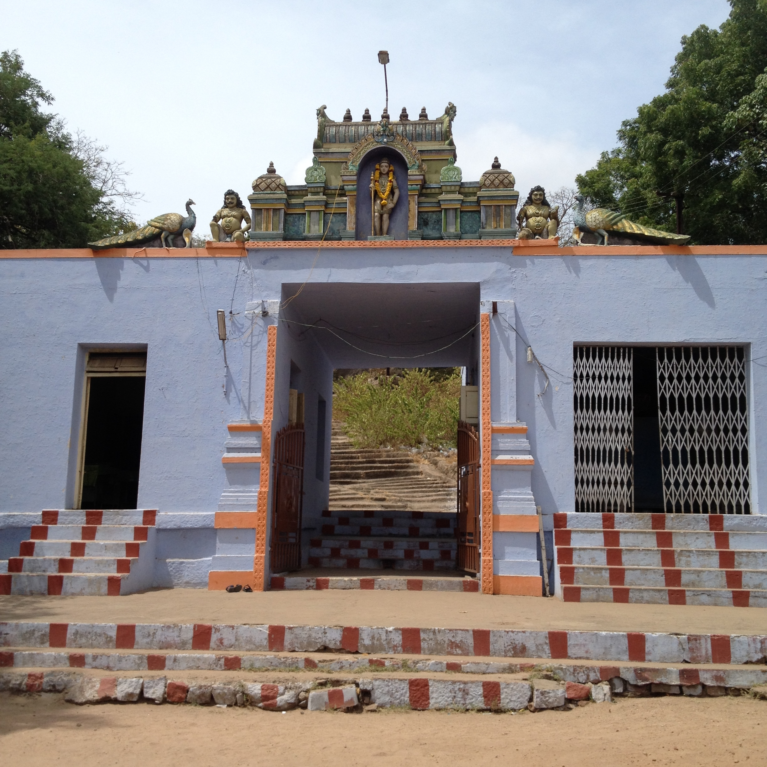 Kinathukadavu Ponmalai Velayudhaswamy temple, entrance at the base